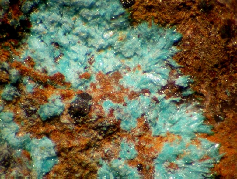 Botallackite Locality: Sounion Mine No. 19 ("Chloridstollen"), Sounion Mines, Sounion area, Lavrion District Mines, Lavrion (Laurion; Laurium) District, Attikí (Attica; Attika) Prefecture, Greece Field of view 4 mm. Specimen and photo Leon Hupperichs.